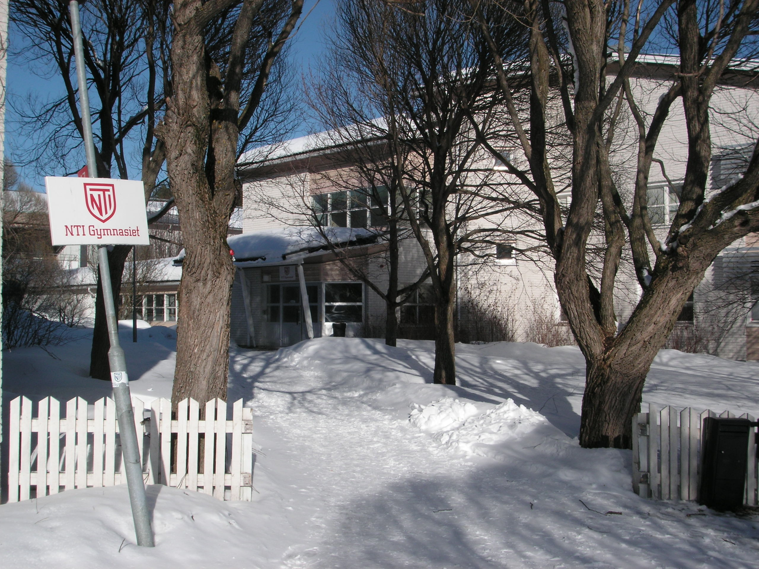 Private school (high school) "NTI-gymnasiet" in Umeå, Sweden.